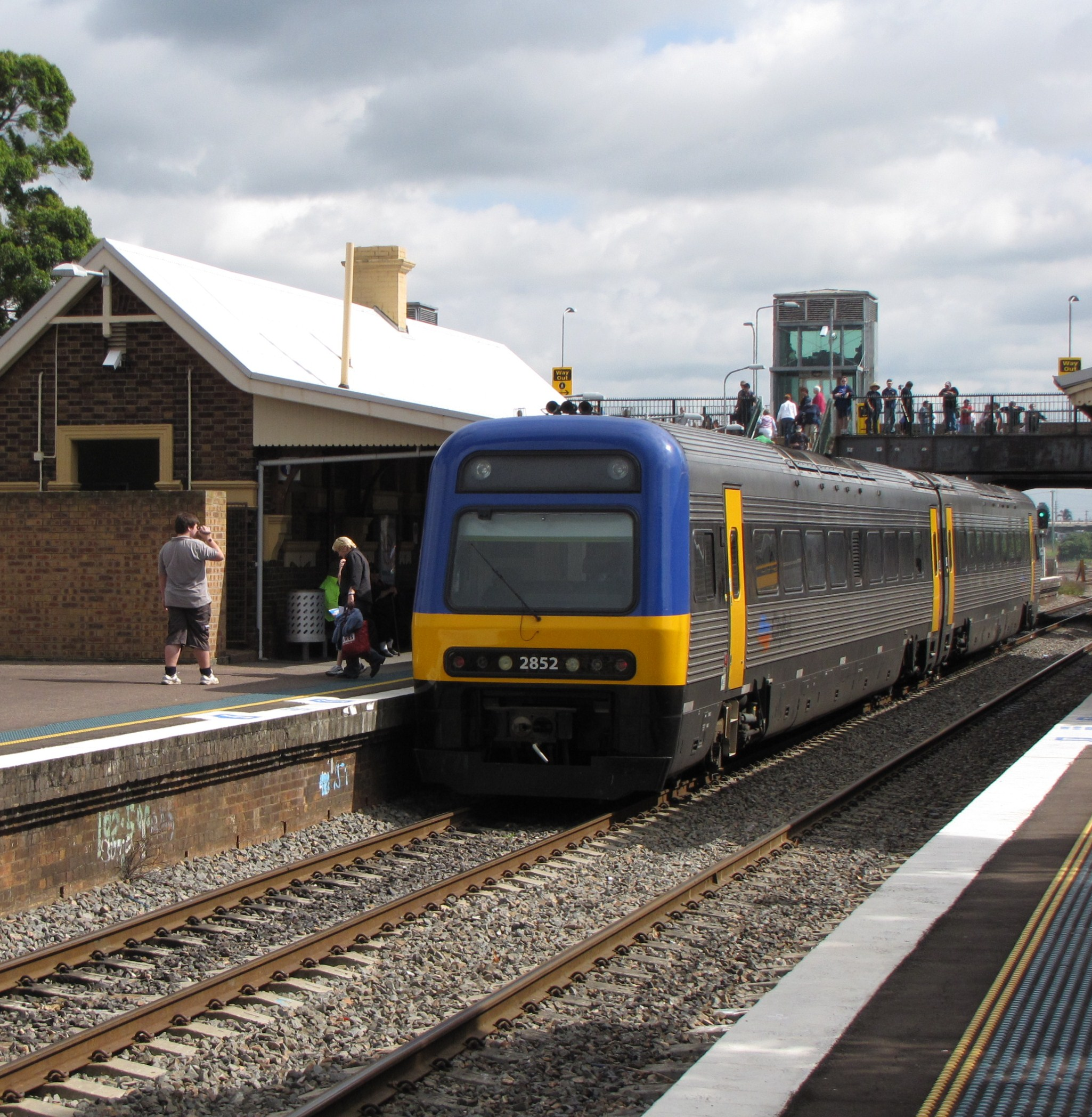 A refurbished Endeavour set arrives at Maitland.